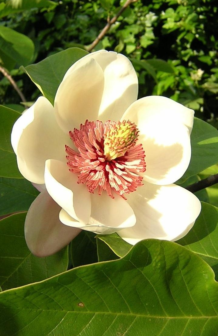 Magnolia × wieseneri (syn. M. × watsonii, nom. illeg.), a hybrid between M. obovata Thunb. and M. sieboldii K. Koch, showing the tepals (undifferentiated perianth parts), stamens (male parts) and pistils (female parts), spirally arranged on a conical receptacle (the receptacle itself is not visible).